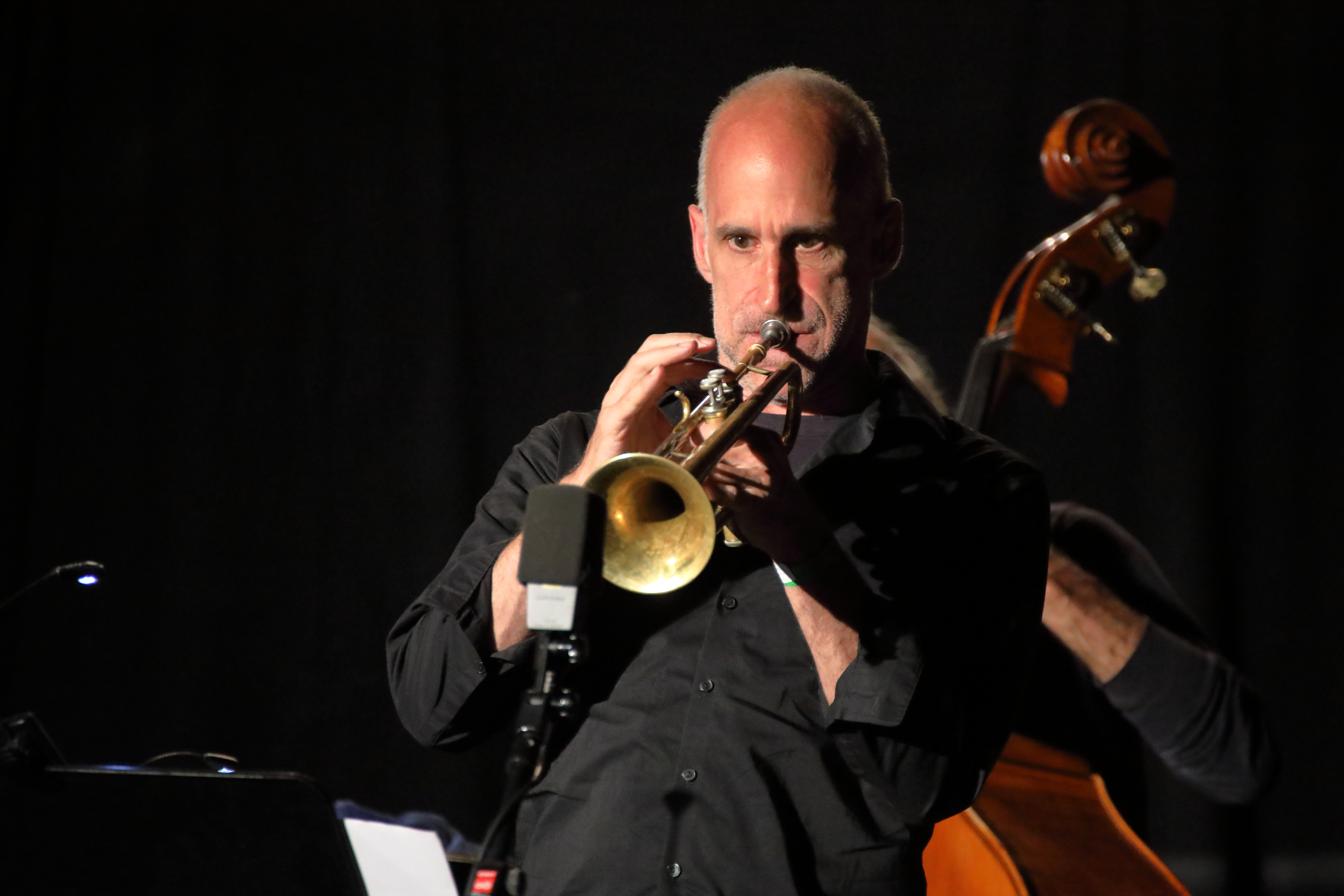 The Florian Weber Quartet with Ralph Alessi (tr) at INNtöne Jazzfestival 2019. Michel Benita (db) & Nasheet Waits (dr).